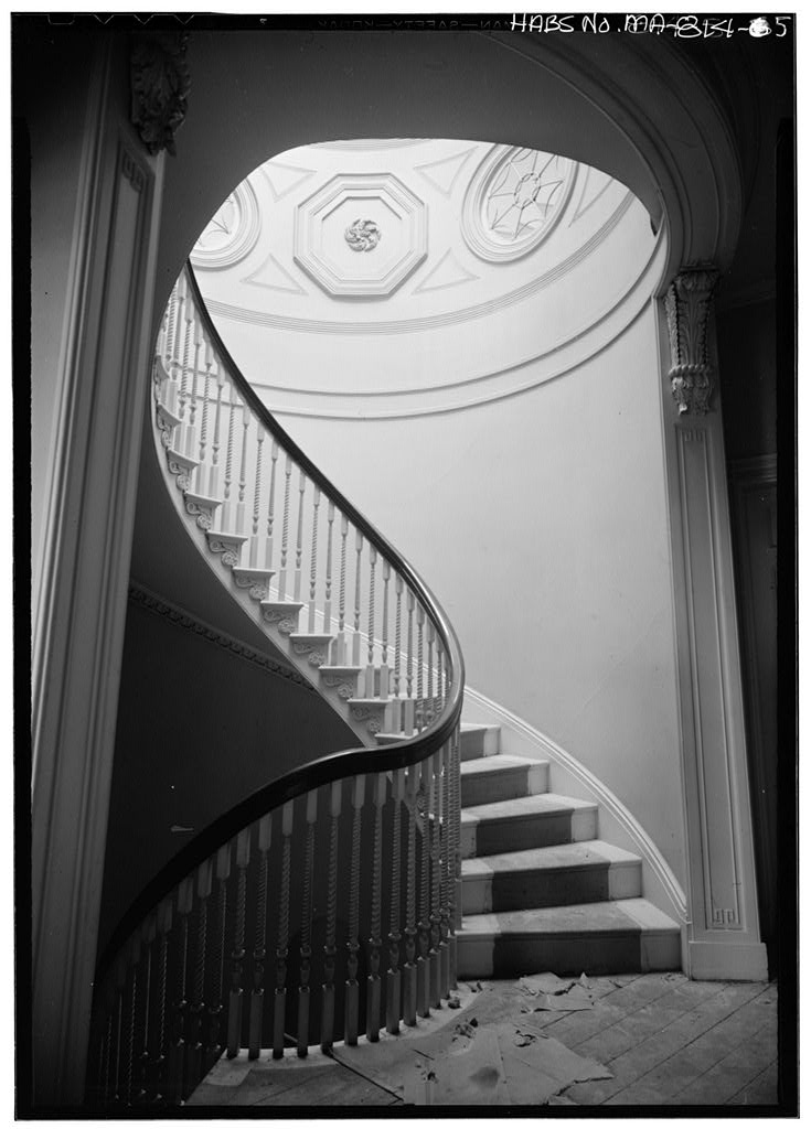 Daniel P. Parker House (Women's City Club), 39 Beacon Street, Boston, Suffolk County, Massachusetts, USA. Photograph of circular staircase, 3rd floor landing.